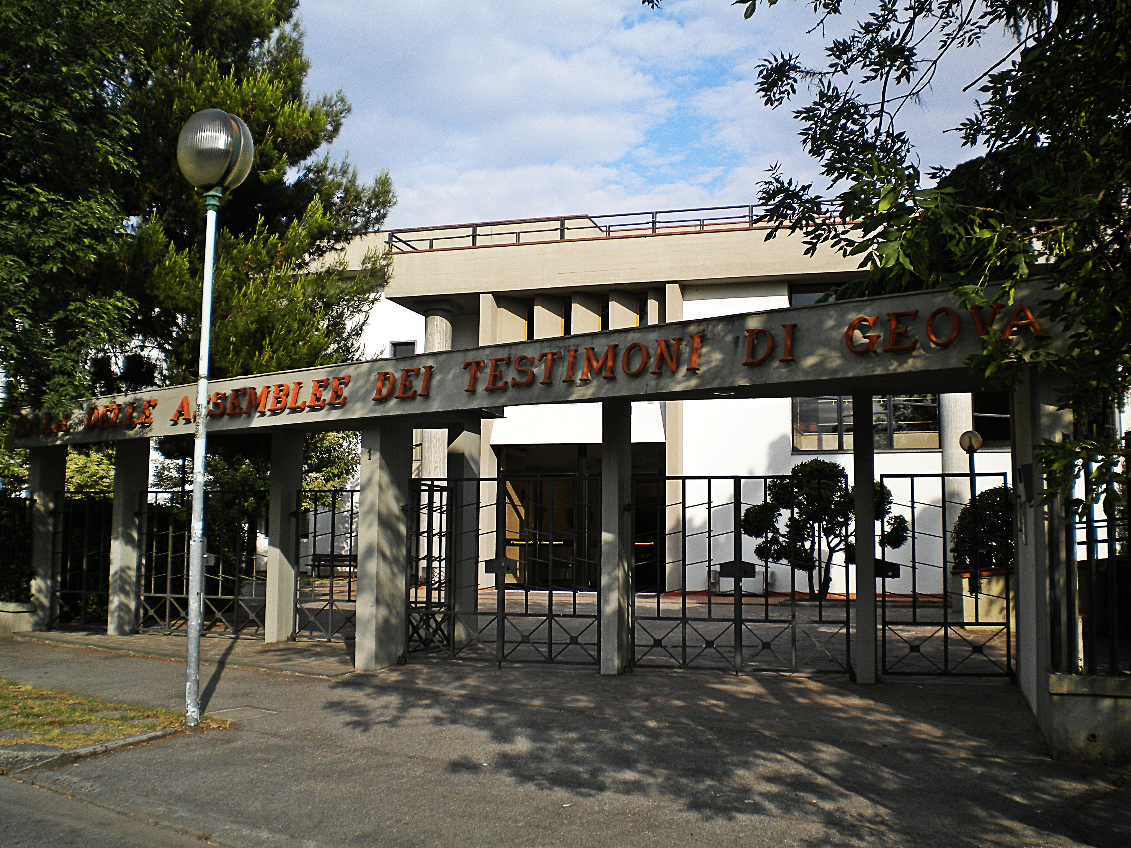 Entrance of the Assembly Hall of Jehovah's Witnesses, Galciana, I-59100 Prato